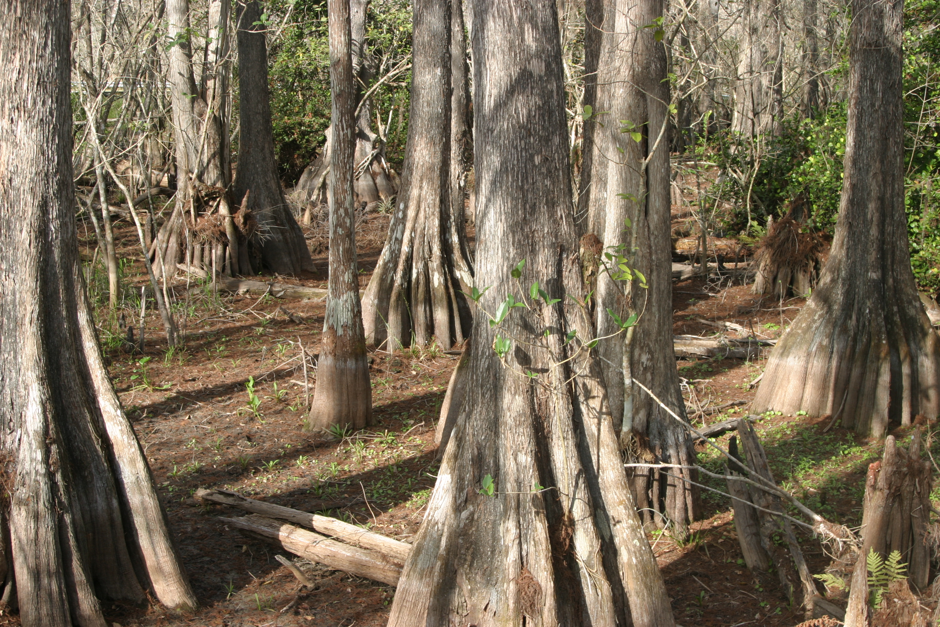 Bald Cypress during wintertime (dry season) at Big Cypress National Preserve, FL